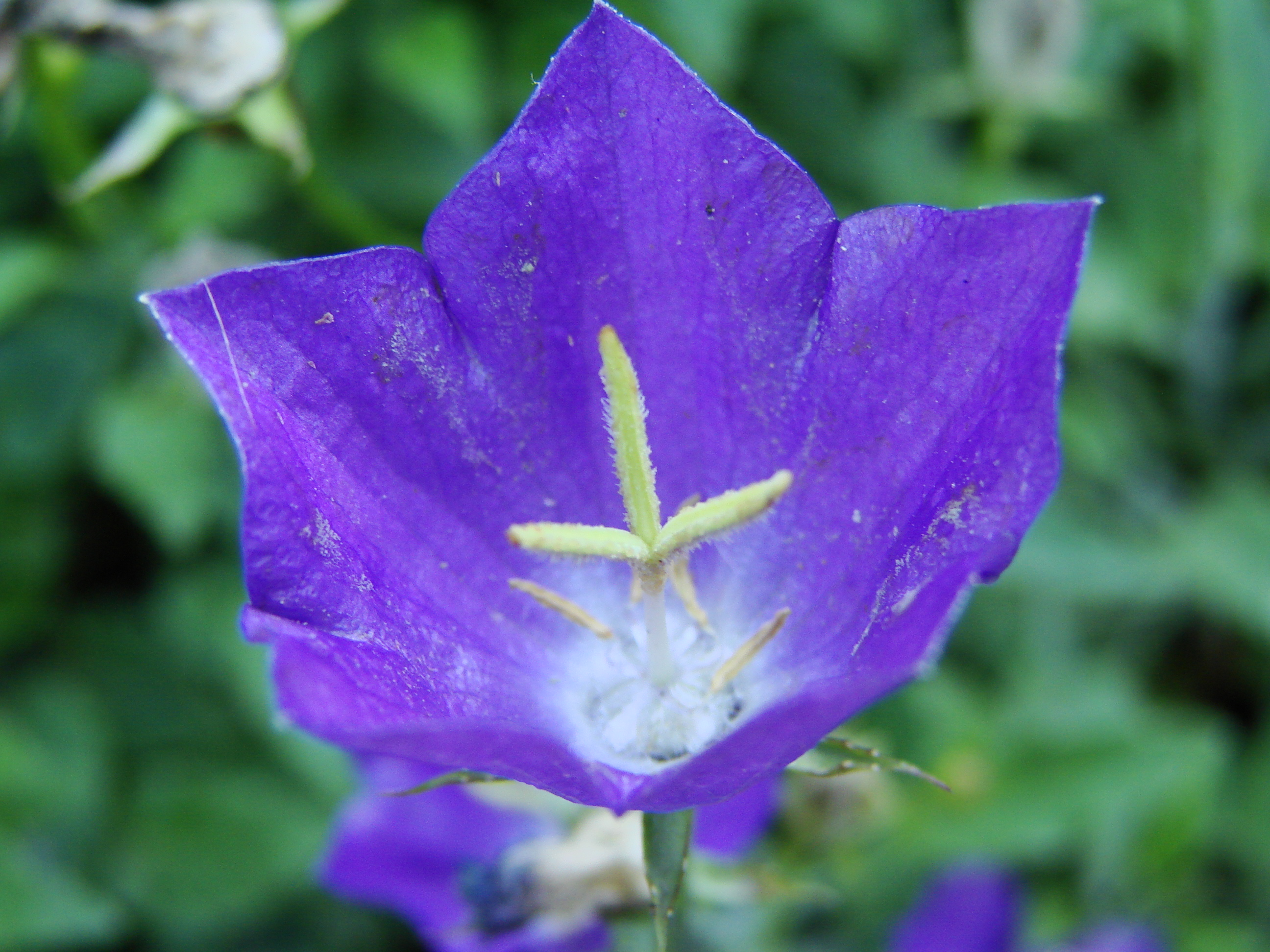 Picture taken in the university botanical garden of Wrocław (Poland): Campanula raineri Perpenti